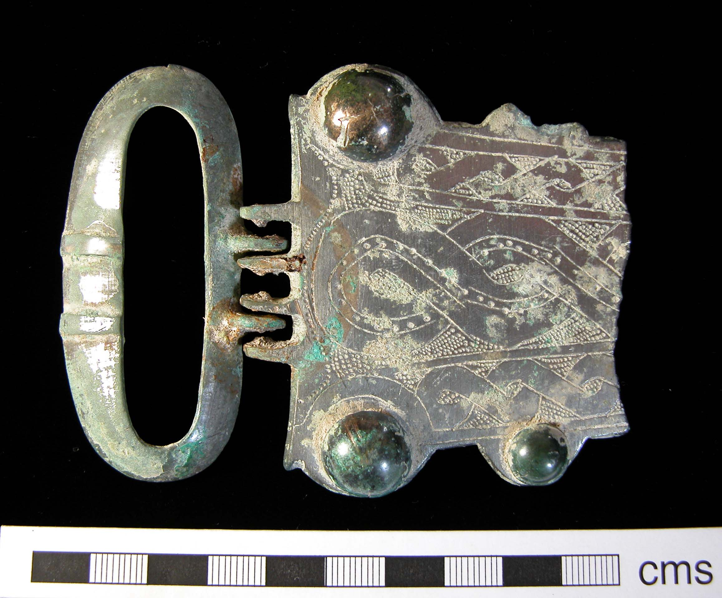 A Frankish copper alloy buckle loop and plate with nine domed bosses. Both the buckle loop and plate are hollow backed, and are silvered on the front. The buckle loop is an elongated oval, 71.11mm long by 39.89mm wide, by 5.64mm thick. Internal width of the strap would be 56.39mm. It has two projecting perforated lugs for attachment to the buckle plate, via an iron pin (now corroded). Two transverse raised ridges on the outer frame form a pin rest. The buckle loop weighs 19.42g. The triangular buckle plate has a worn transverse break across its body. The larger section has two pairs of opposing semi-circular lugs projecting from its upper and lower edges. These contain dome-headed rivets, although one rivet is missing from one of the smaller lugs, which is broken. Four perforated lugs project from the front edge of the buckle plate, for attachment to the buckle loop via an iron pin. The front of the buckle plate is silvered and decorated with three bands of incised intertwined serpents running lengthwise along the plate. A semi-circular band of the silvering is missing, presumably as a result of wear, at the edge of the plate that attaches to the buckle loop. There are three projecting perforated lugs on the reverse of the plate to allow attachment to the leather belt strap. The larger part of the buckle plate measures 65.55 mm long (minimum) by 72.74mm wide by 17.78mm thick (maximum including dome headed rivets and projecting lugs on reverse). This section weighs 55.06g. The other extant section of buckle plate was examined at the British Museum in December 2001. This comprises the greater part of the terminal of the plate, with 4 further bosses extant. This buckle is an Aquitanian type IC 2, which has been dated by Aufleger to the 7th or early 8th century AD (Aufleger 1997). The main distribution of this type of buckle is France, particularly in the south-west in the Garonne region.